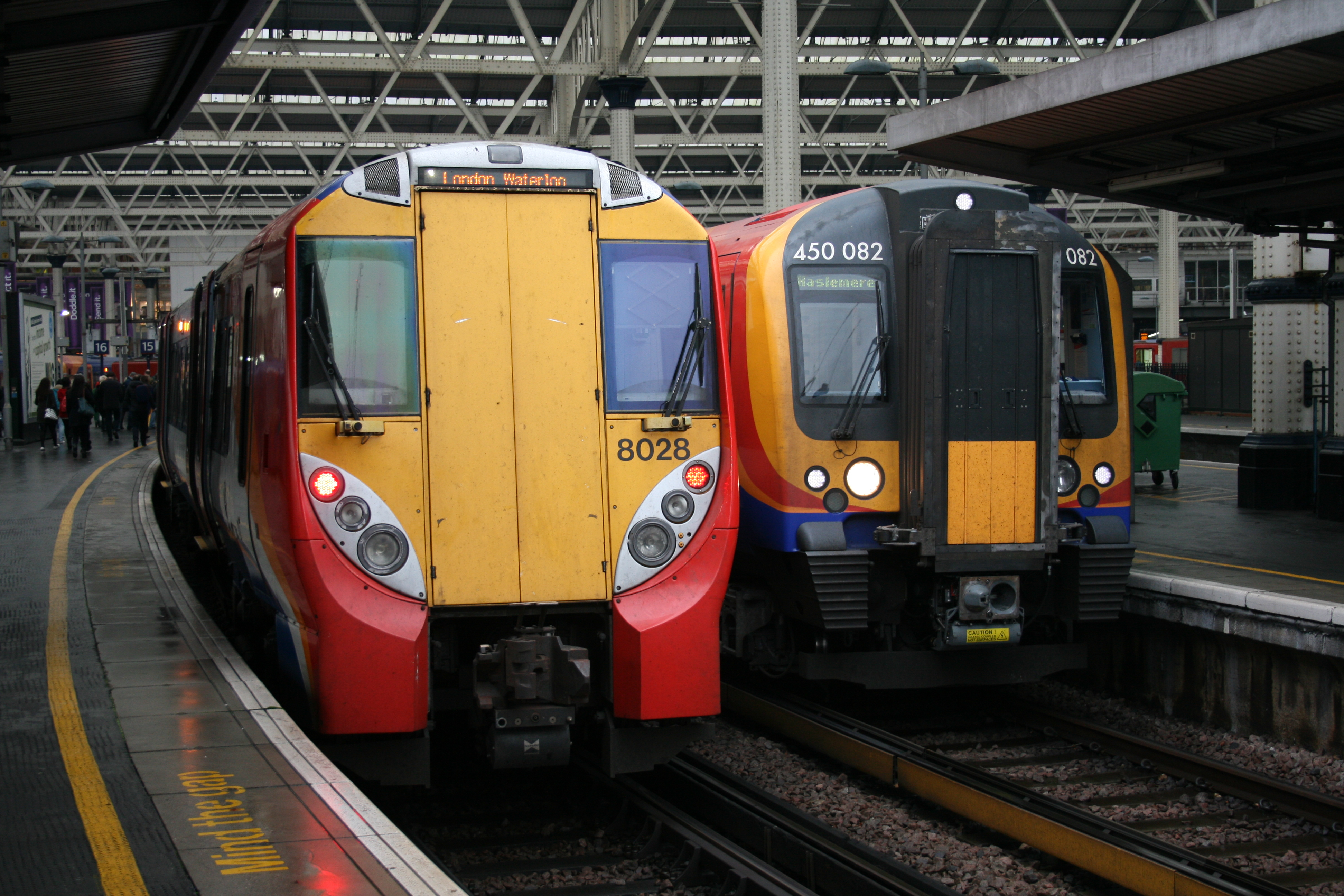 458028 is ex-Reading, to go out on another Reading service 450082 is on a Haslemere service